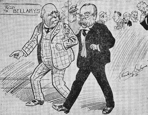 New Zealand political cartoon, 1912